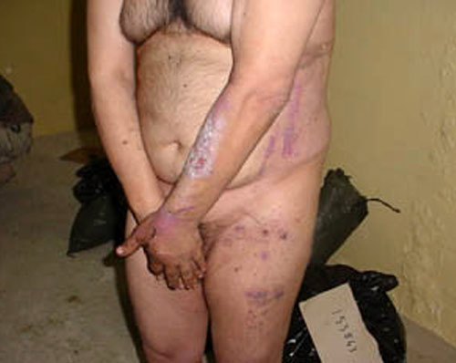 Abu Ghraib 21. 5:03 p.m., Dec. 9, 2003. Photo of unknown detainee. All caption information is taken directly from CID materials. U.S. Army/Criminal Investigation Command (CID). Seized by the U.S. Government.